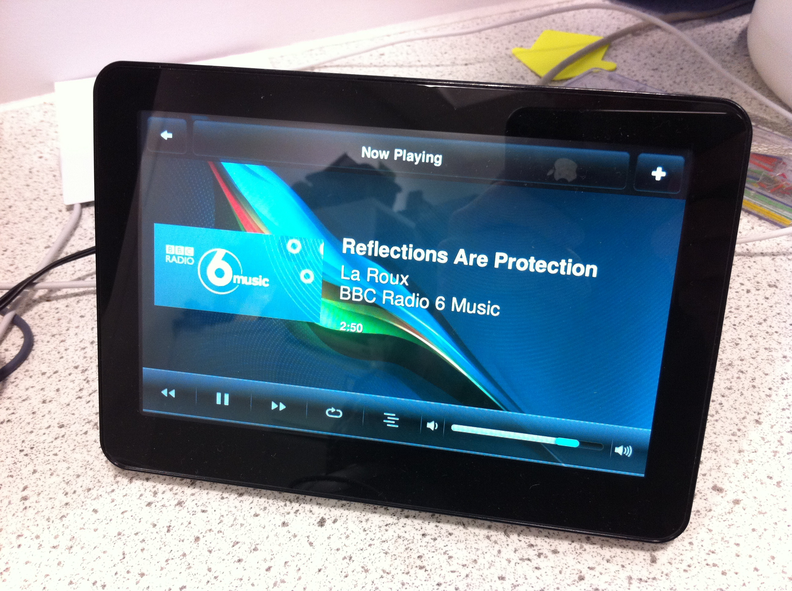 Logitech's open source SqueezePlay software running on an O2 Joggler under its native operating system. Playing BBC Radio 6Music through the BBC iPlayer plugin for Squeezebox Server.